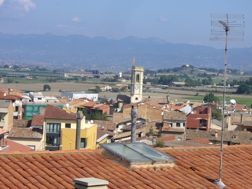 Calldetenes from Lluís Companys Square, in the Serrat neighborhood.